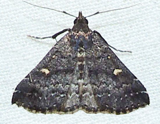 7/8/13 Franklin County Photo and ID thanks to Jack Foreman